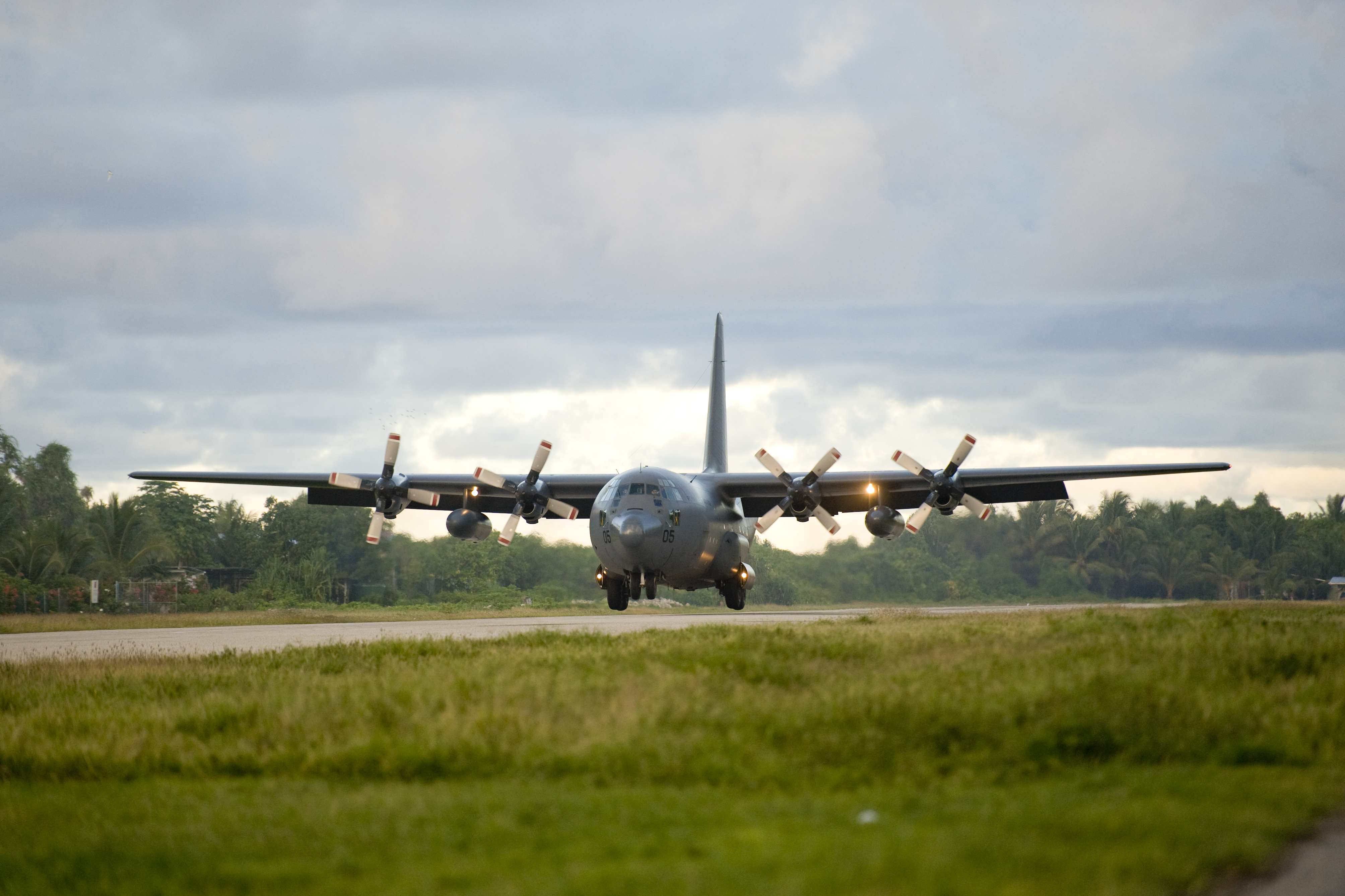 Arrival of RNZAF Hercules at Funafuti International Airport as part of Eercise Tropic Twilight 10, Tualu.